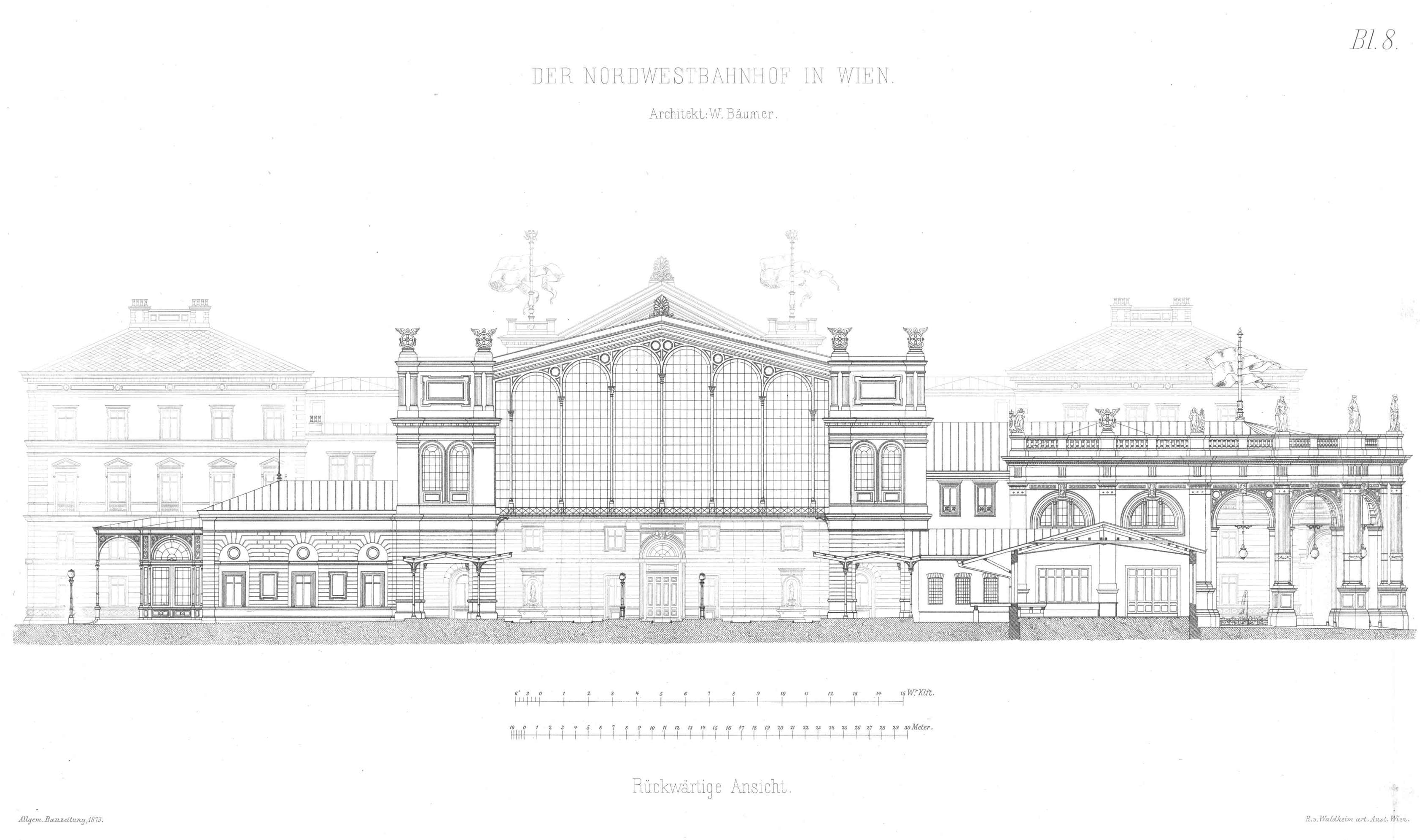 High resolution plan of the Nordwestbahnhof in Vienna.